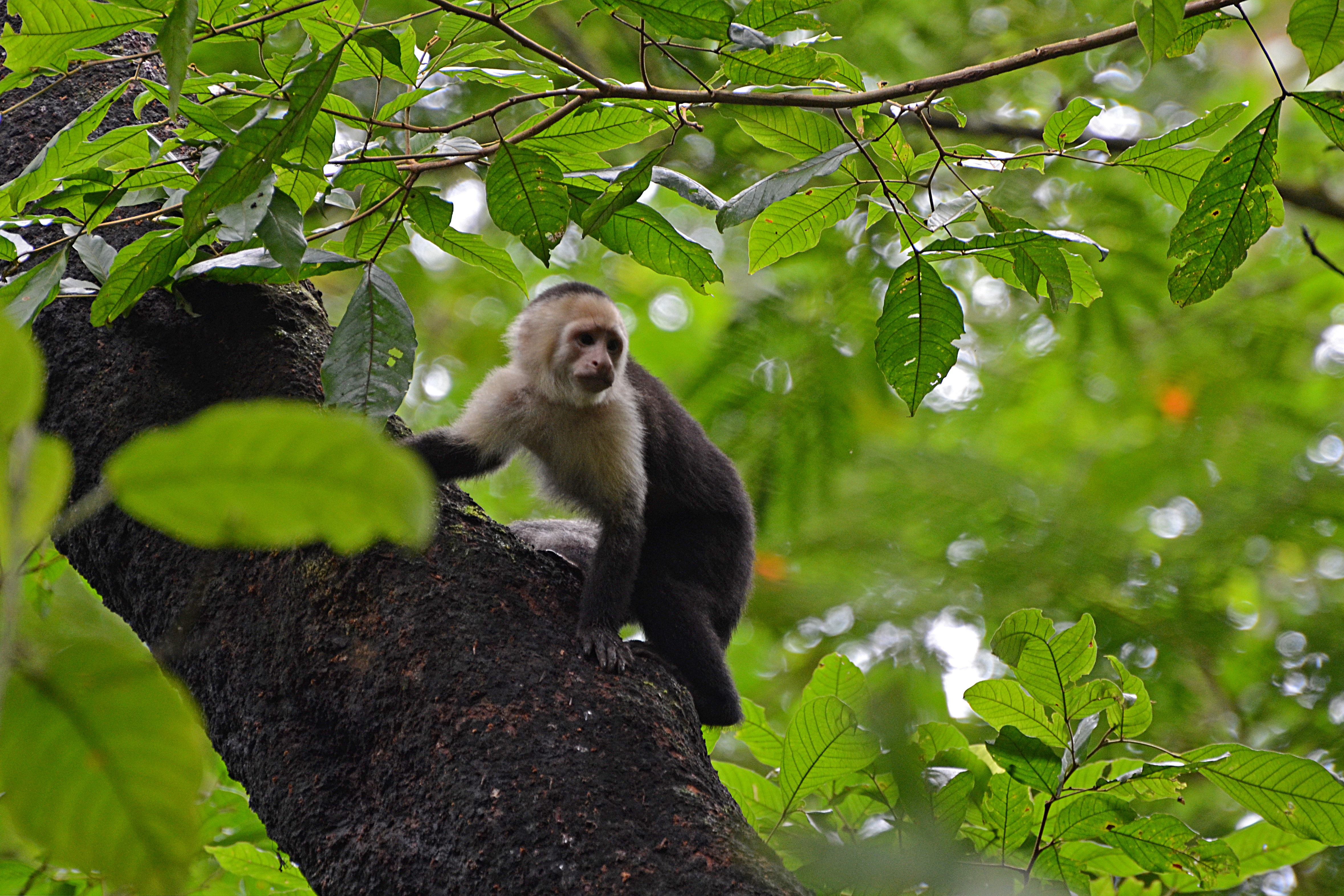 A white-fronted capuchin monkey (Cebus capucinus) at La Selva Biological Station, Sarapiqui, Costa Rica.